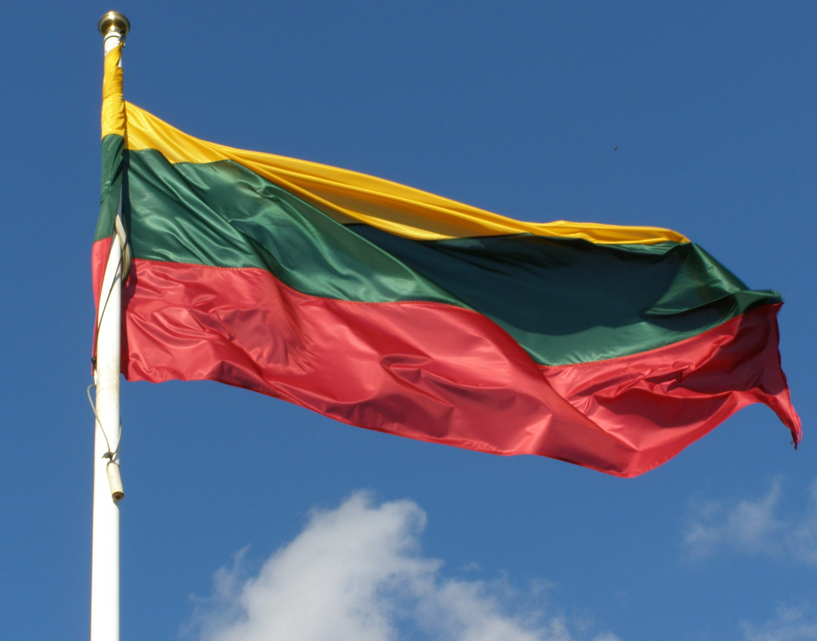 Flag of Lithuania